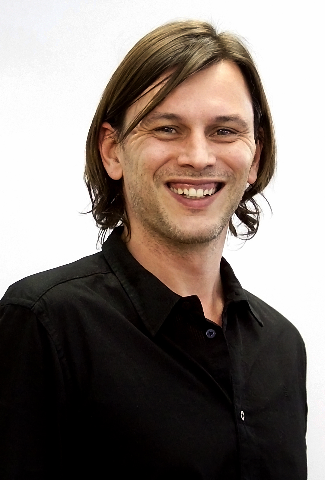 Sergi Pedrerol. Waterpolo player